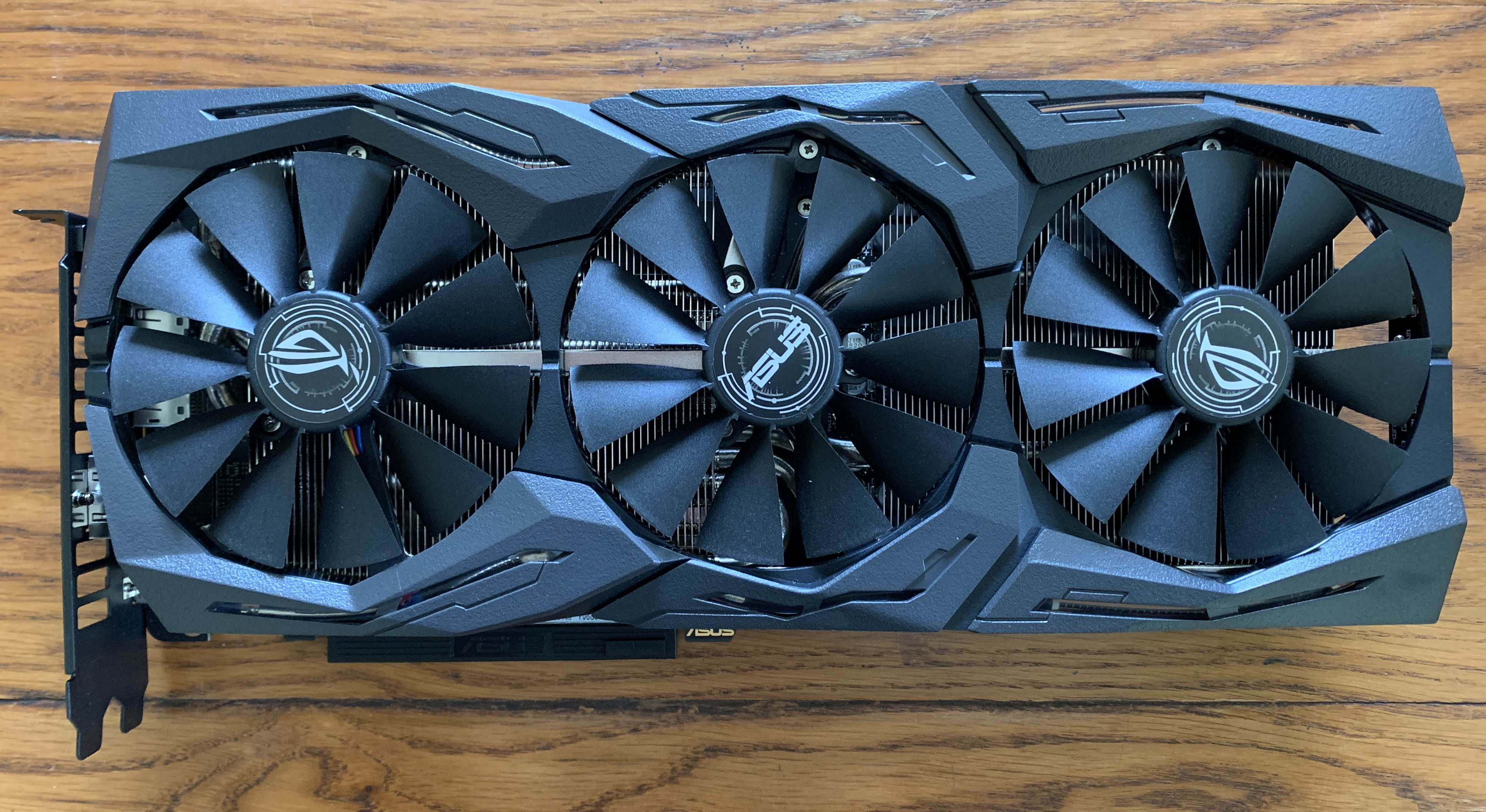 ASUS GeForce RTX 2070 ROG STRIX Advanced - 8GB GDDR6